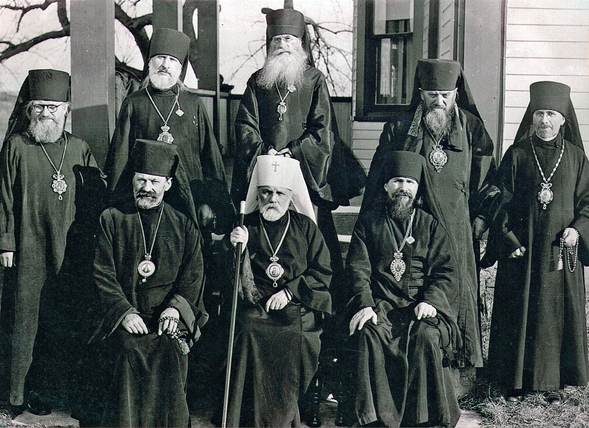 seated, L-R: Bishop Adam (Phillipovsky, 1881-1956) no title at that time, Theophilus (Pashkovsky, 1874-1950), Archbishop of San Francisco, Metropolitan of All America & Canada Archibishop (?) Vitaly (Maximenko, 1873-1960) not sure of his title then Standing: Bishop Macarius (Ilyinsky, 1886-1953) of Boston, Vicar of Met. Theophilus Bishop Leontius (Turkevich, 1876-1965) of Chicago, Bishop Jeronim (Chernov, 1878-1957) of Detroit & Cleveland Bishop Arsenius (Chagovtsev, 1866-1945) of Winnipeg & Canada Bishop Benjamin (Basalyga, 1887-1963) of Pittsburgh & West Virginia.